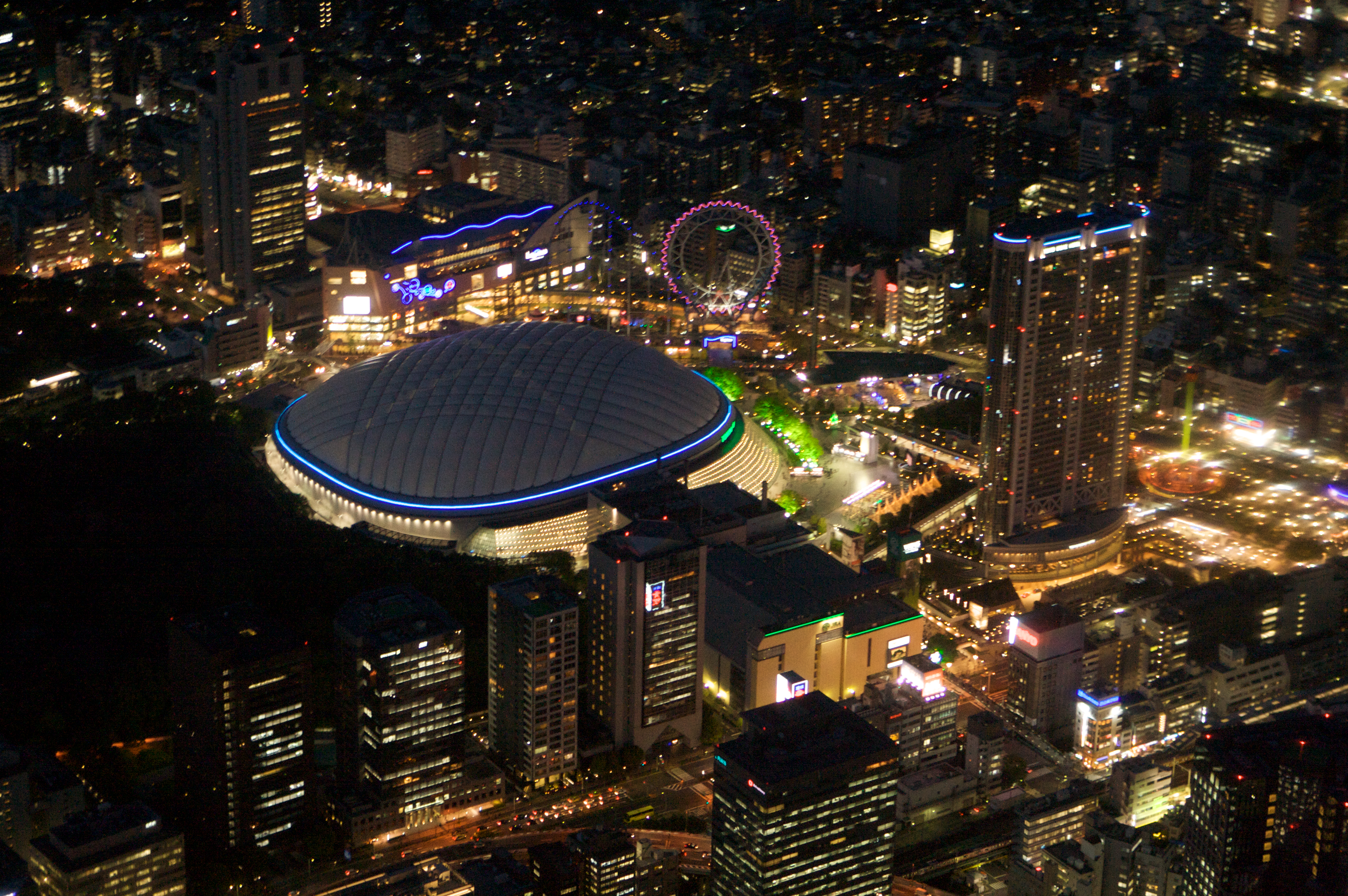 Tokyo Dome and Tokyo Dome Hotel (right) from the air at night